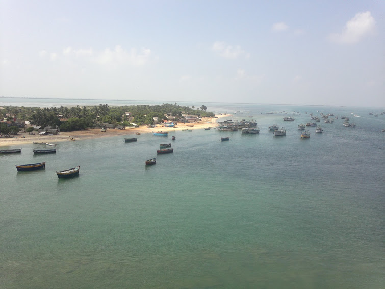 The view from Pamban Bridge, Rameswaram